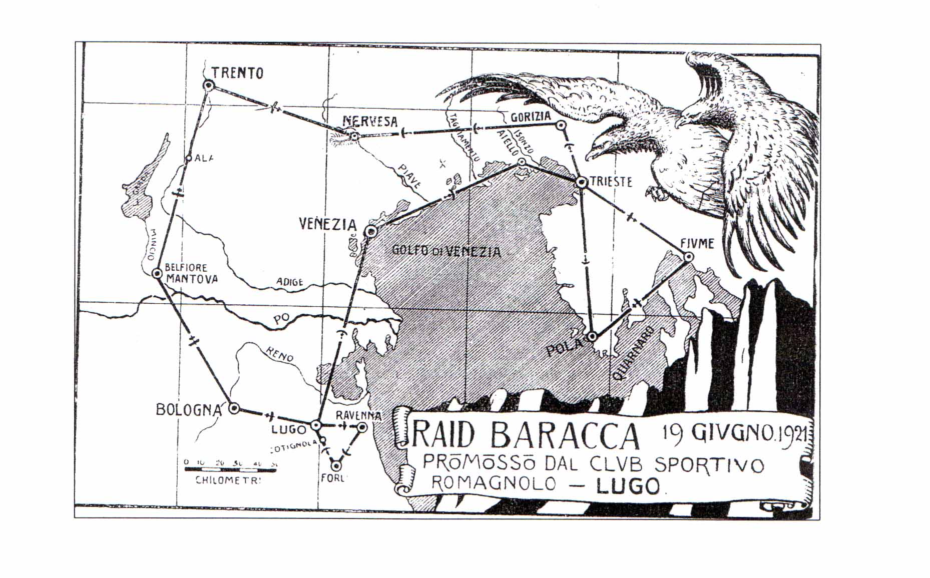 Circuit of "Coppa Baracca" - 1921